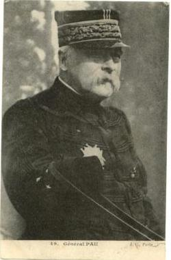 Postcard of France - French General Pau 1914, published by E LeDeley. Postcard photo is cropped from a larger image of Pau on horseback